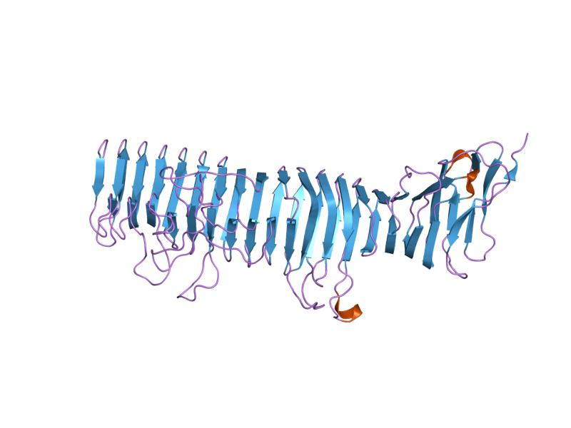 Cartoon representation of the molecular structure of protein registered with 1dab code.